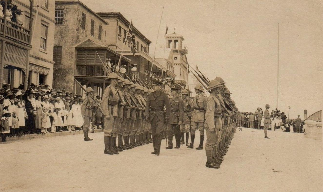 An honour guard from the 2/4th Battalion of the East Yorkshire Regiment is inspected by General Sir James Willcocks on his landing at the Royal Bermuda Yacht Club Steps (on Front Street, west of the junction with Parliament Street) in the City of Hamilton, Bermuda in 1917 to replace Lieutenant-General Sir George Mackworth Bullock as Governor and Commander-in-Chief of Bermuda.